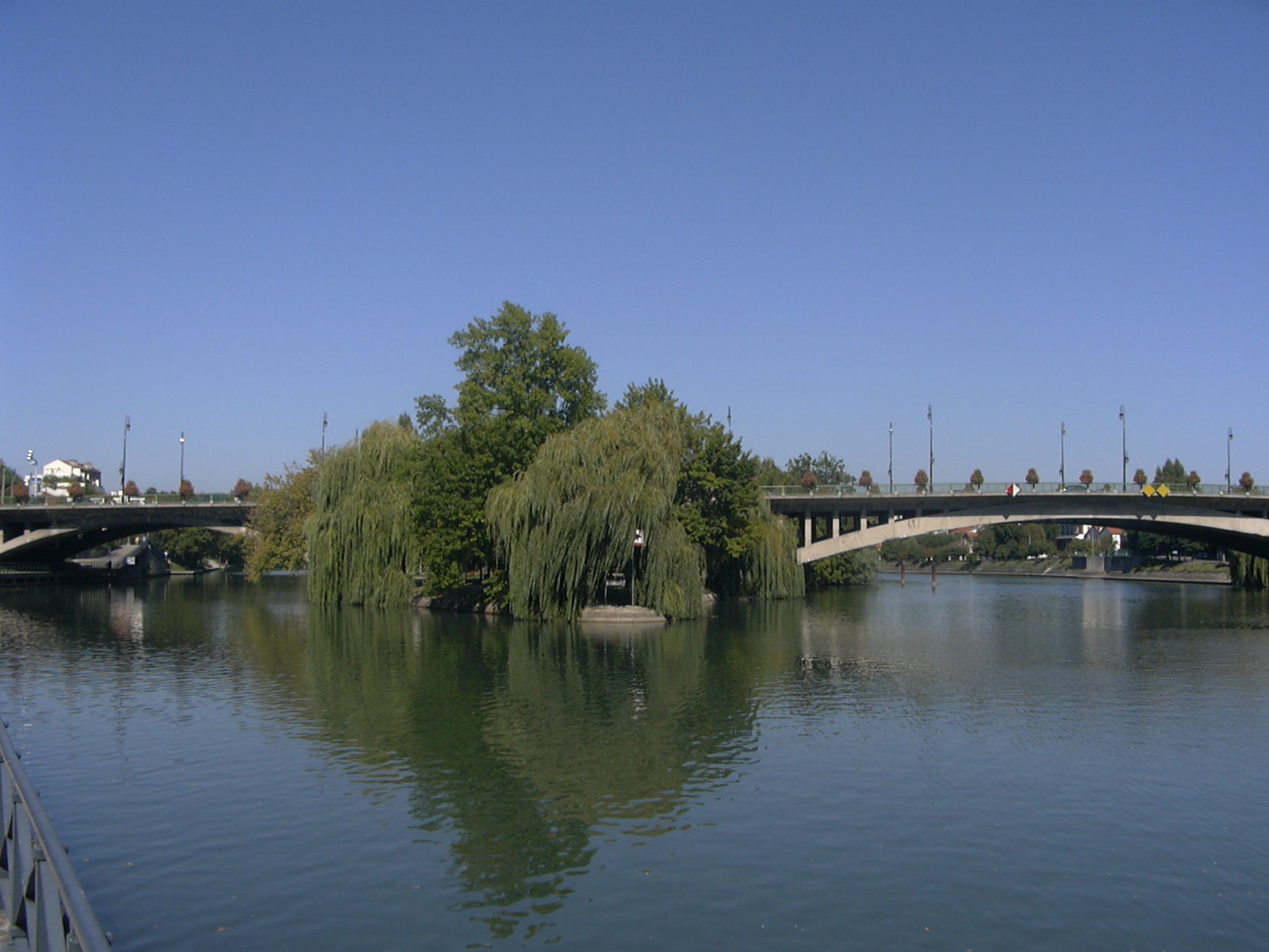 Bridge ovr the river Marne, Joinville-le-Pont, France